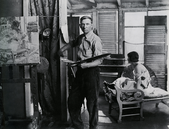 Richard E. Miller in his studio in Providencetown, MA